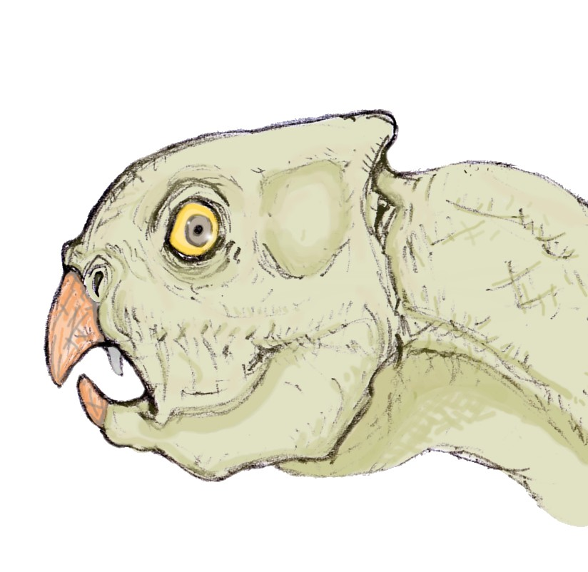 Xuanhuaceratops head reconstruction based on [1].